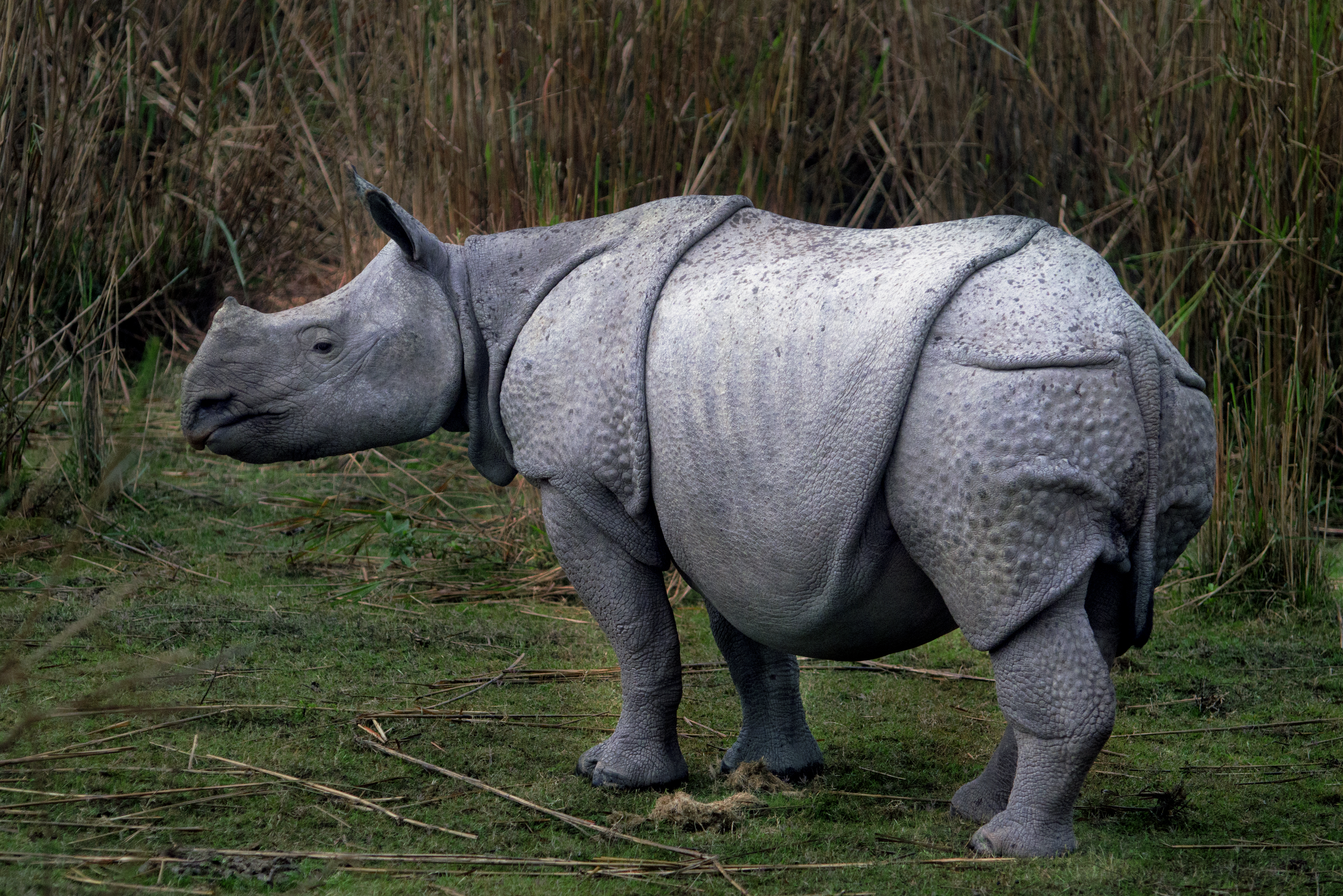 took it during early morning at kaziranga